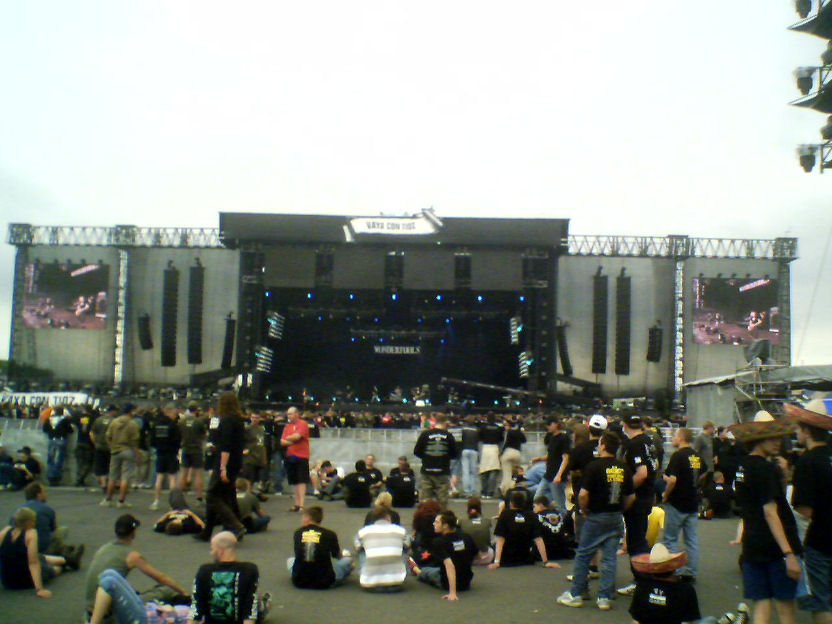 The supportband "Wonderfools" at Vaya con Tioz, by Böhse Onkelz at the Lausitzring, Friday afternoon, 17th of June 2005.